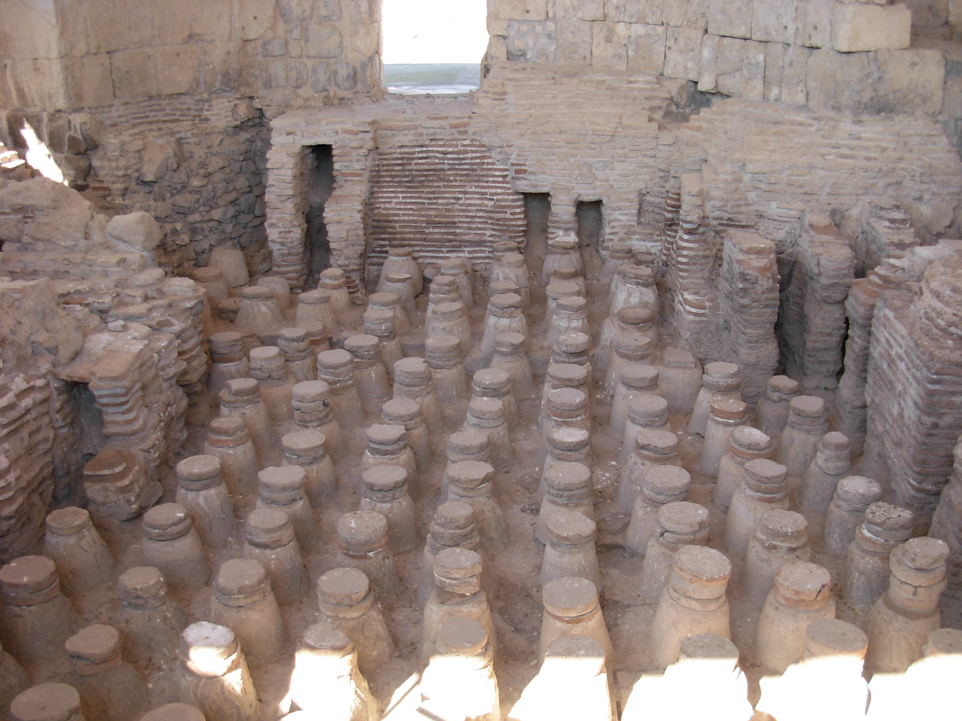 Hypocaust in the roman bath-house in Bet She'an